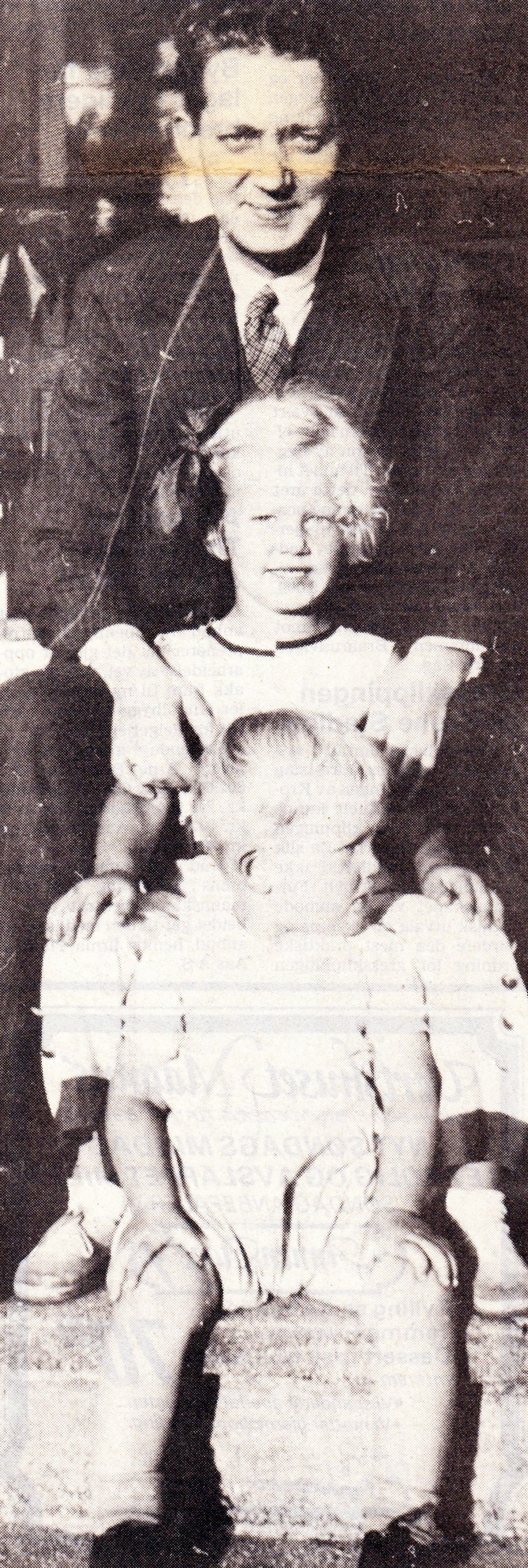 Trygve Gulbranssen with his daughter Ragna and his son Per.